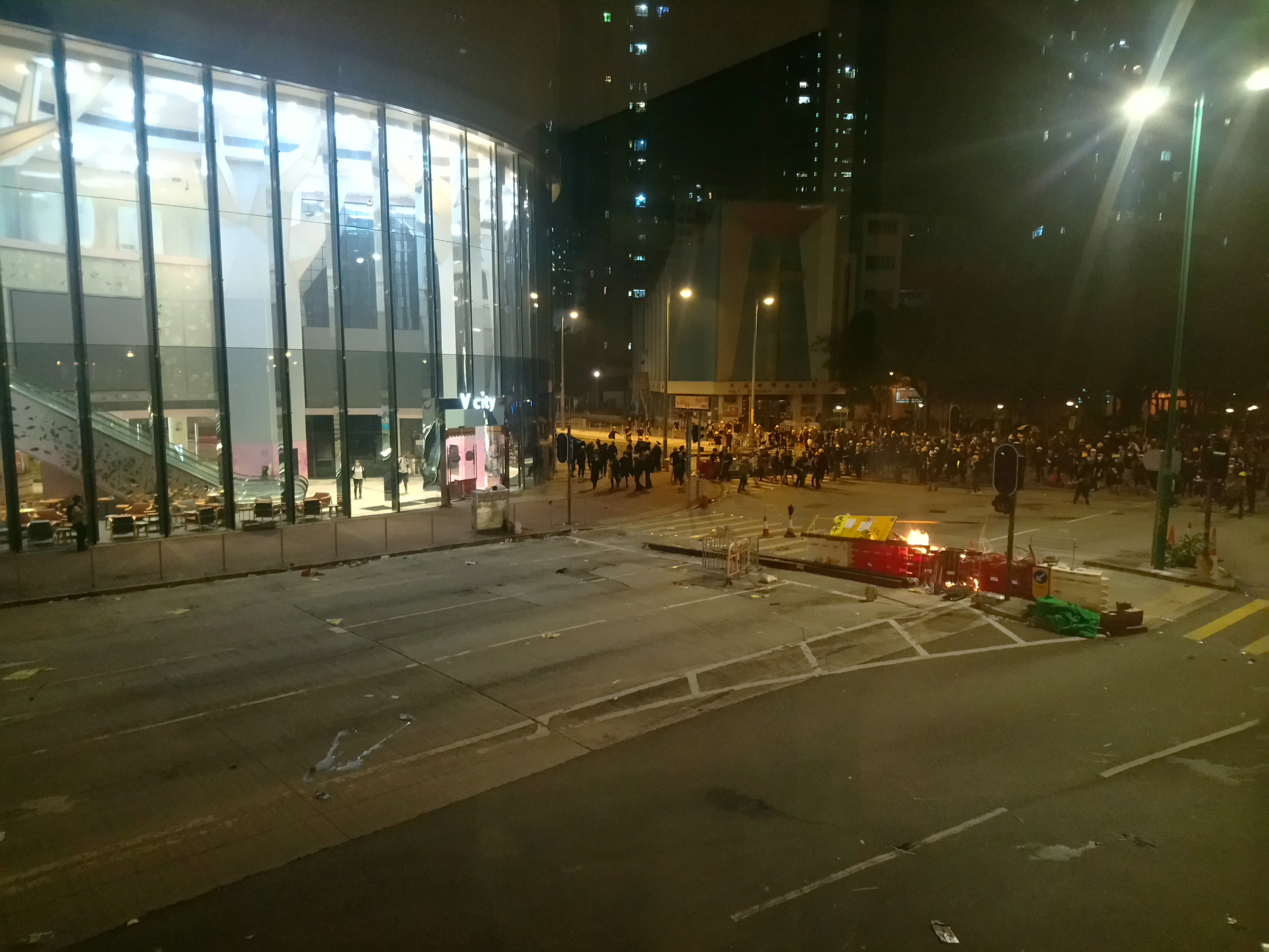 Tuen Mun Protest